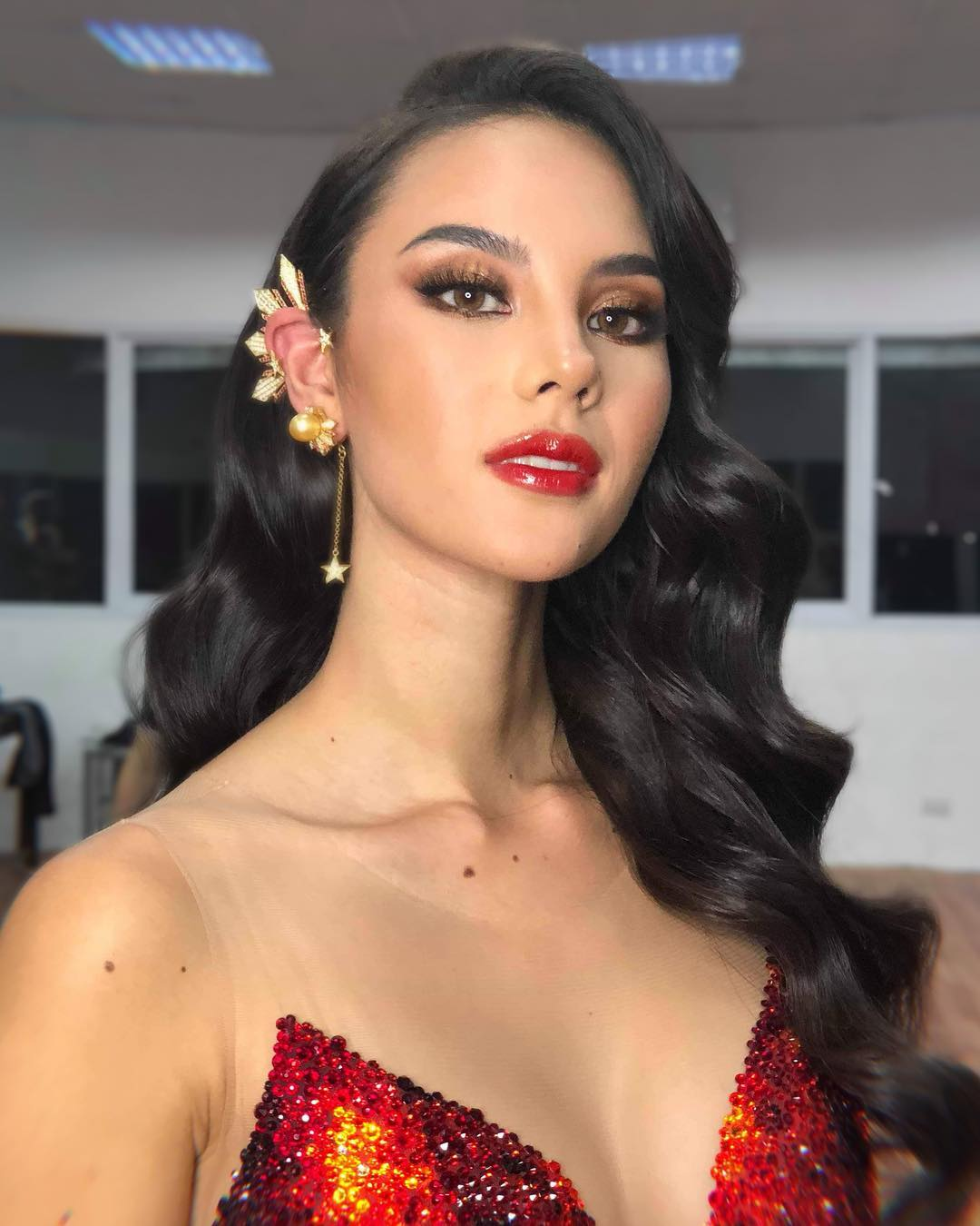 Catriona Gray with iconic tri-star and sun earpiece, in Mak Tumang Swarovski gem-embellished "Mayon" evening number